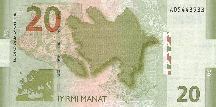 Reverse of 20 AZN